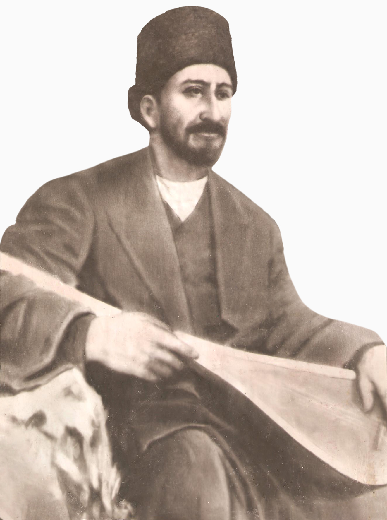 Ashig Alasgar - azerbaijani ahig